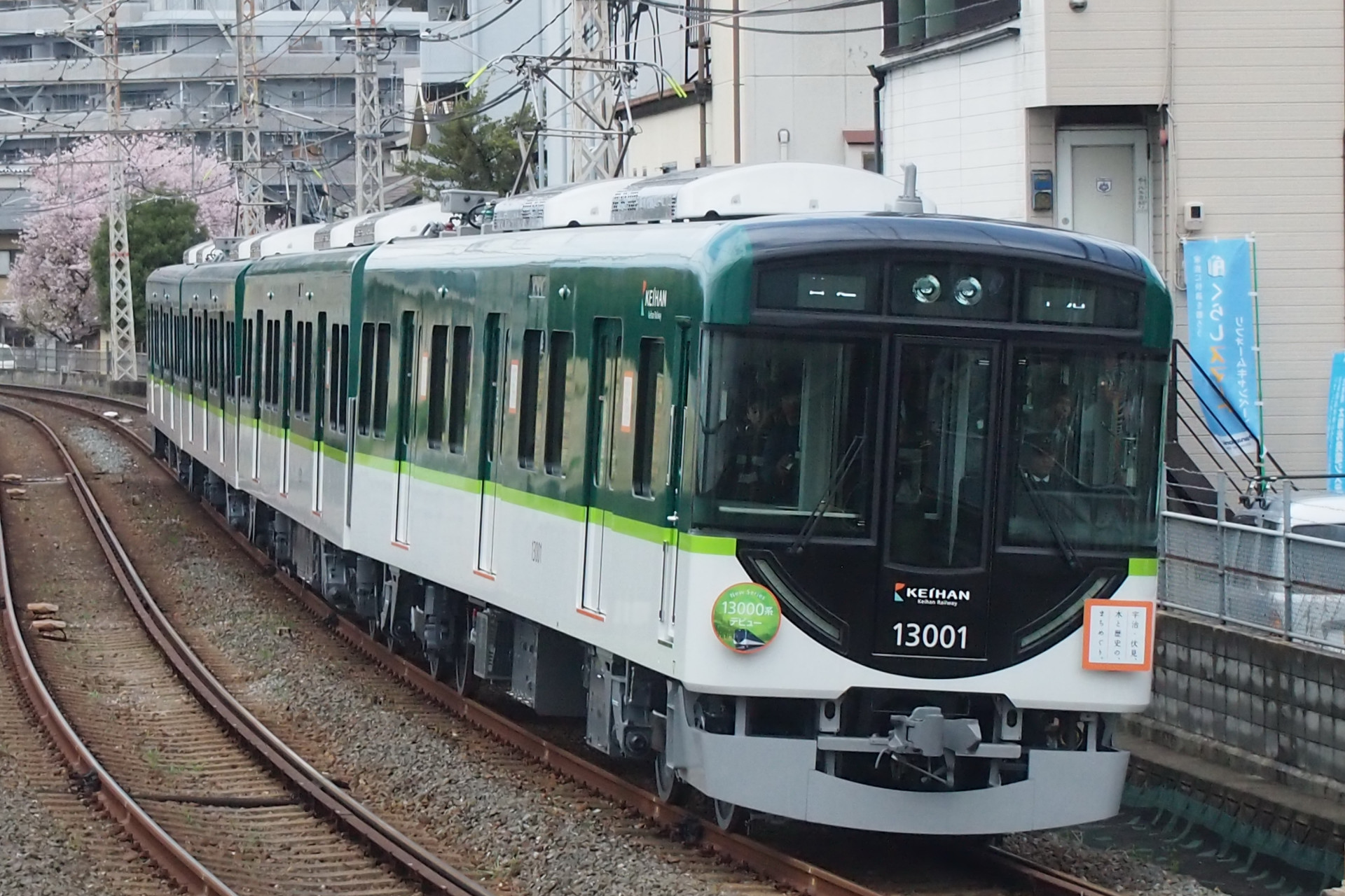 Keihan 13000 series EMU set 13001 on the Uji Line between Kangetsukyō and Momoyama-minamiguchi stations